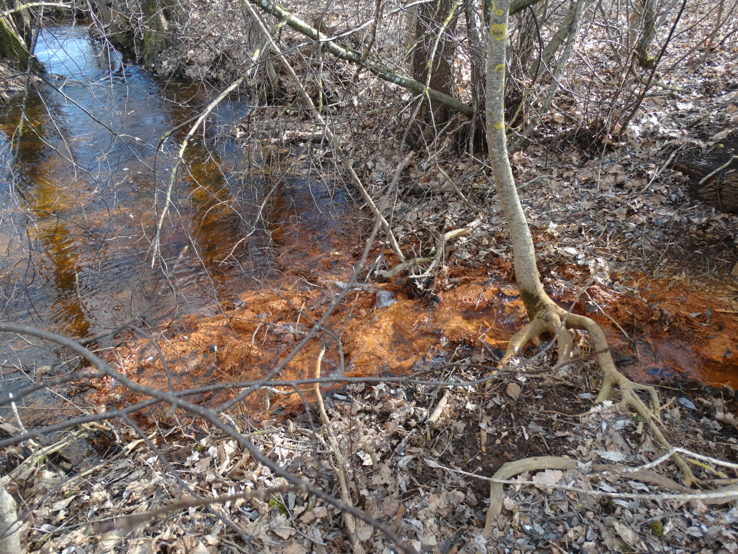 Rudoji versmelė (Brown Spring), Salakas, Zarasai district, Lithuania